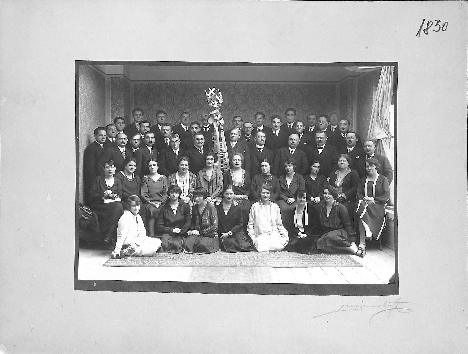 The first Serbian church singing society from Pančevo. Photography originated in the early 20th century